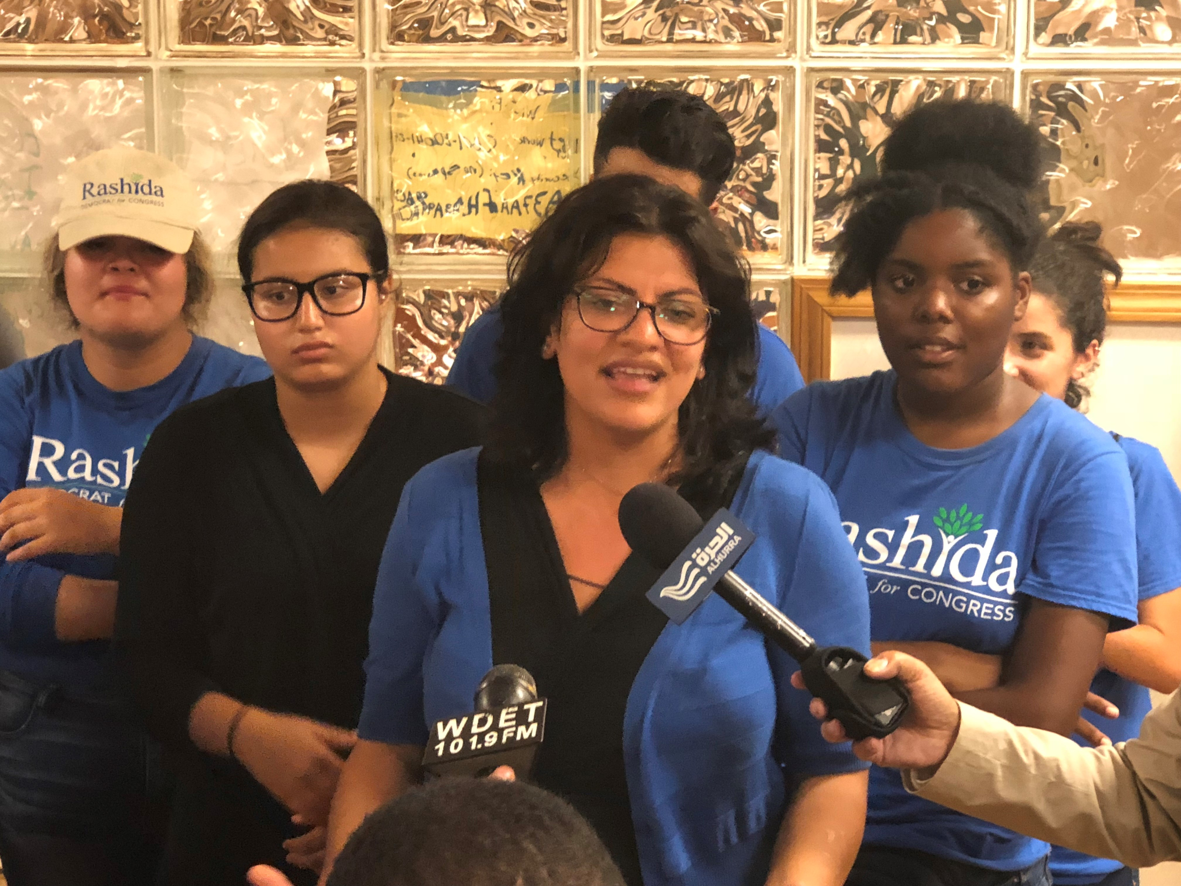 Rashida Tlaib is seen at her campaign headquarters in Detroit, Michigan, Aug.7 2018